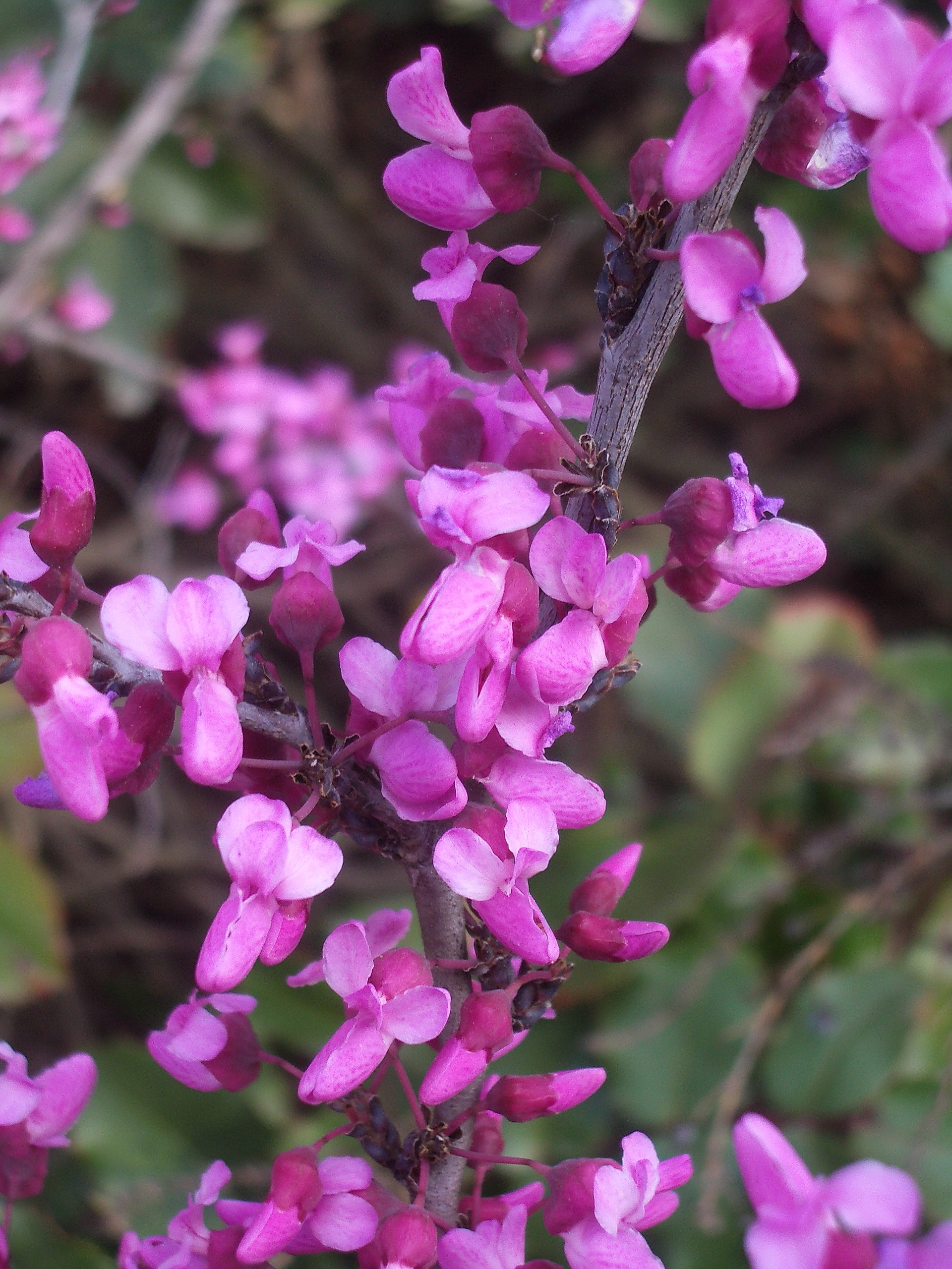 Flowers of Western redbud (Cercis canadensis var. texensis)